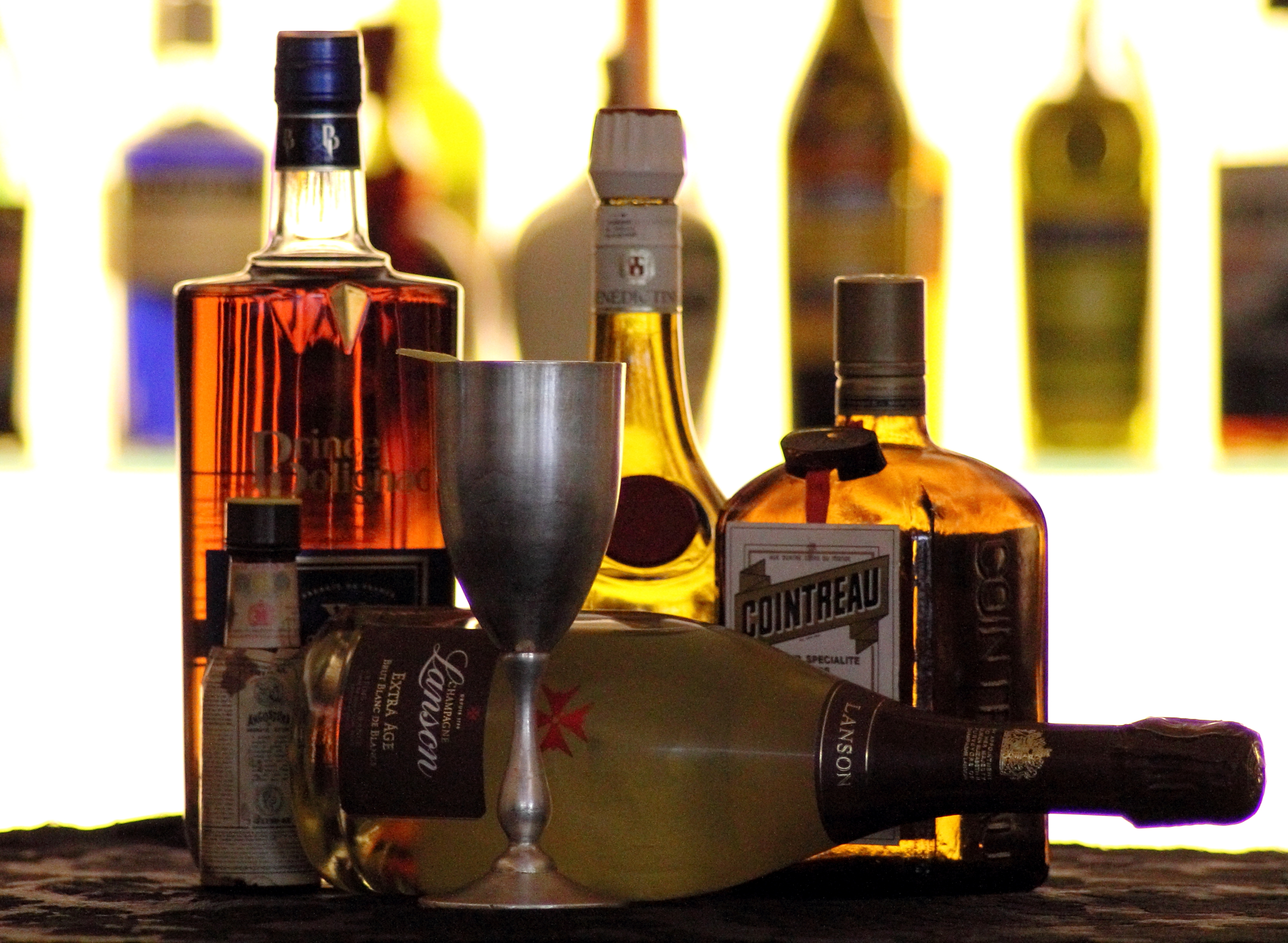 Prince of Wales cocktail witht typical partially historic ingredients.